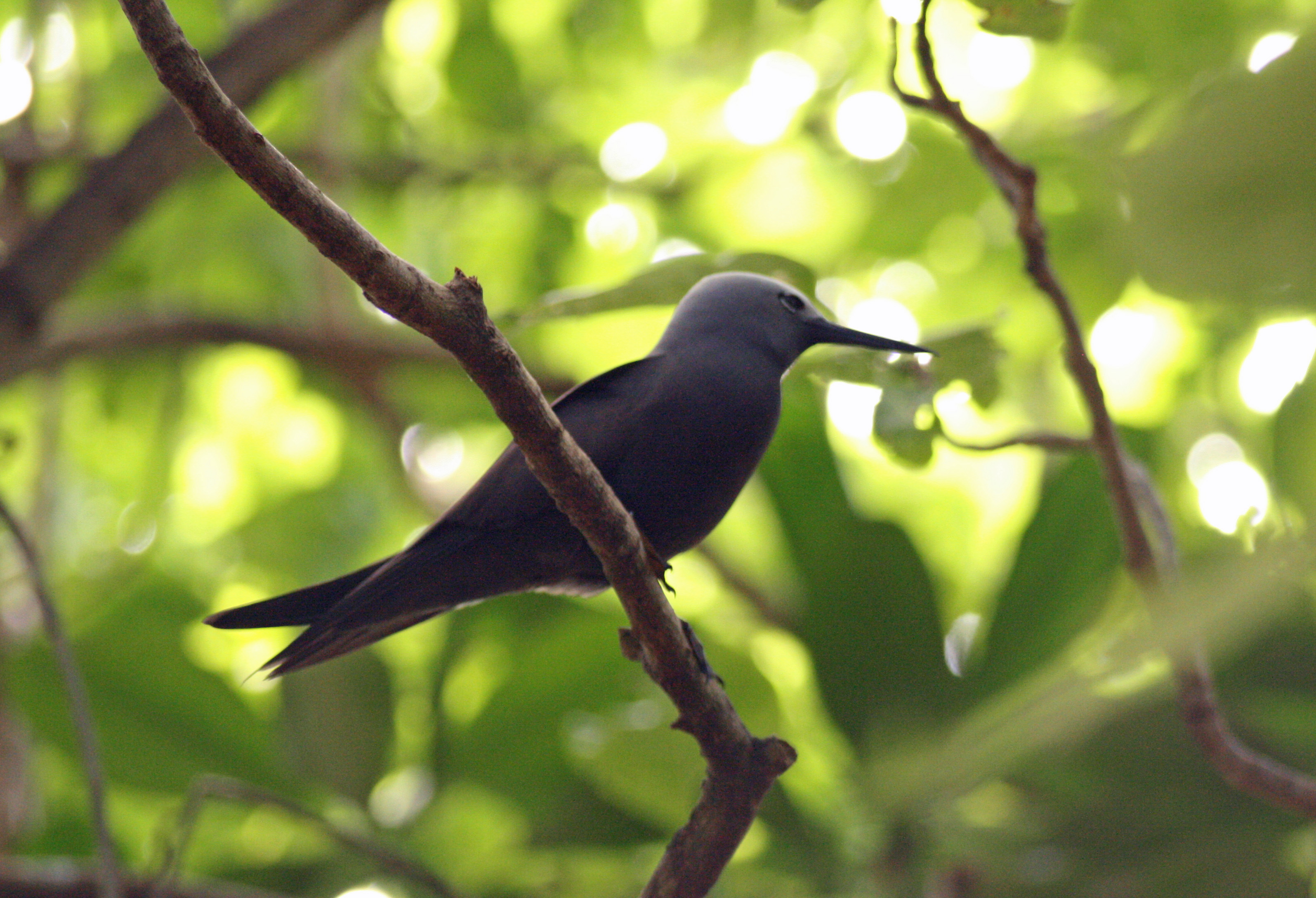 Anous tenuirostris ("Lesser noddy") in Cousin Island, Seychelles